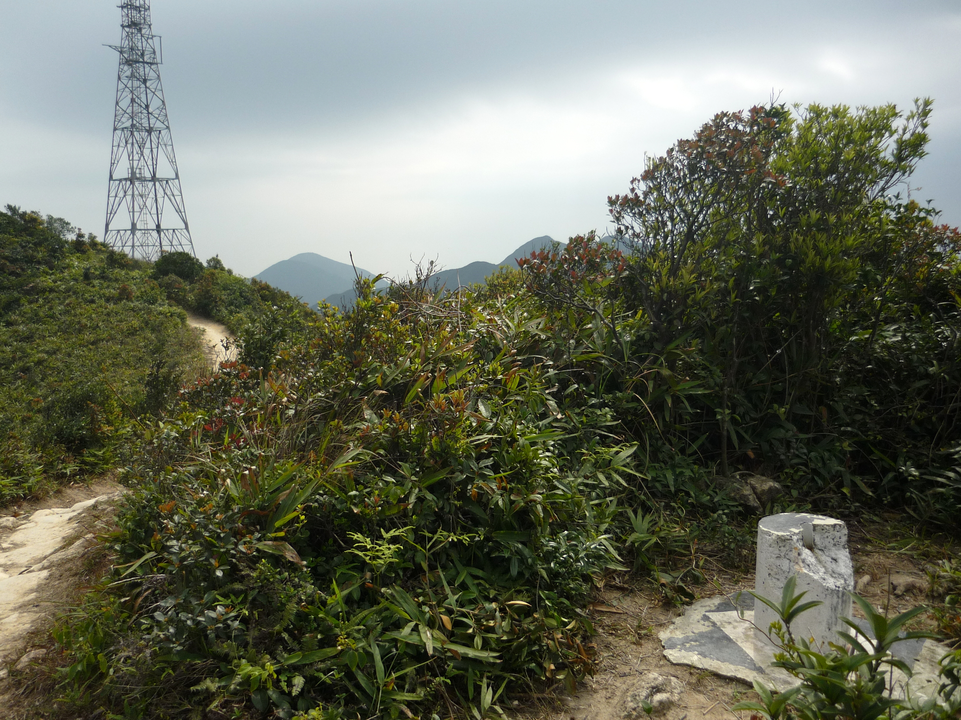 The transmitting station on Siu Ma Shan and the abandoned trigonometric station.